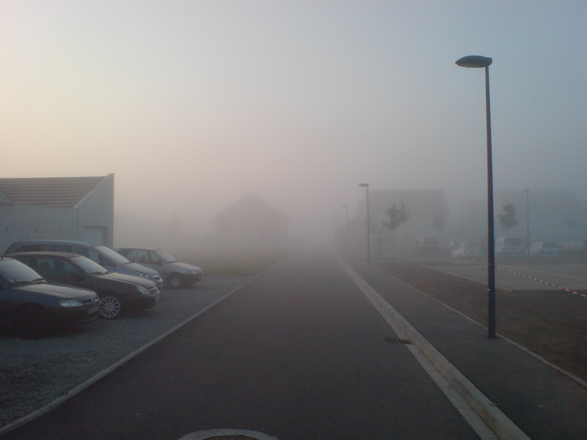 This is the Lure'smog